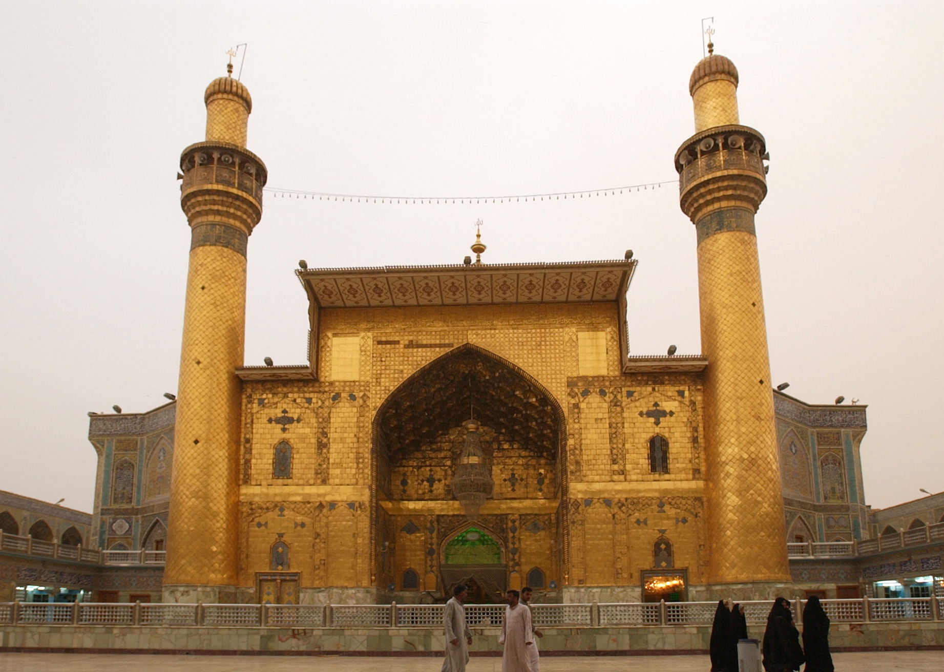 Facade of the Meshed Ali, Najaf, Iraq Original description: 030408-N-5362A-002 Near Al Najaf, Iraq (April 08, 2003) -- The holy Shiite Muslim shrine (Dareeh) of the Imam Ali sits in Najaf. U.S. Navy photo by Photographer's Mate 1st Class Arlo K. Abrahamson.